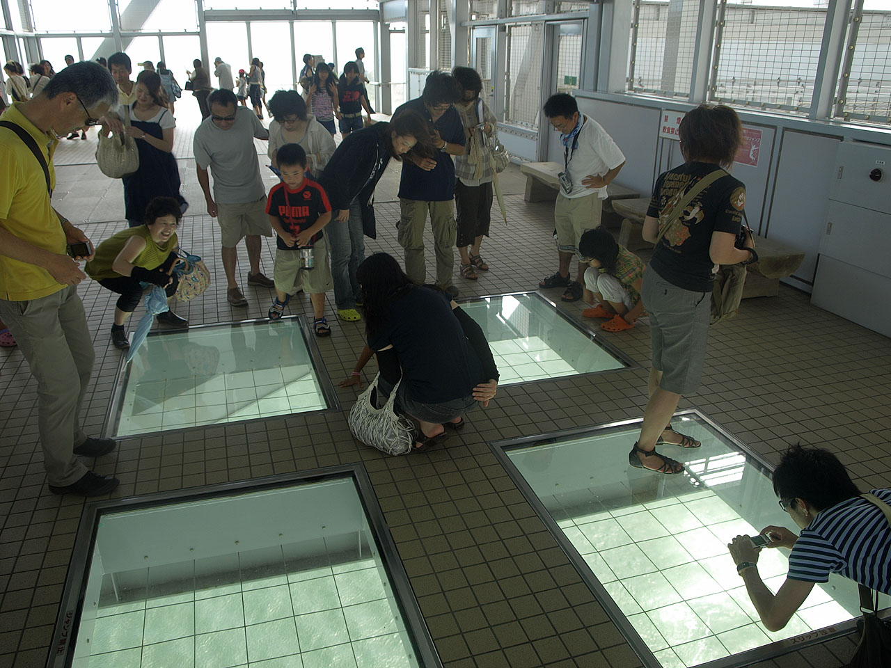 The viewing platform of the Uzunomichi, the walkway under the Oh-naruto Bridge, Tokushima, Japan.